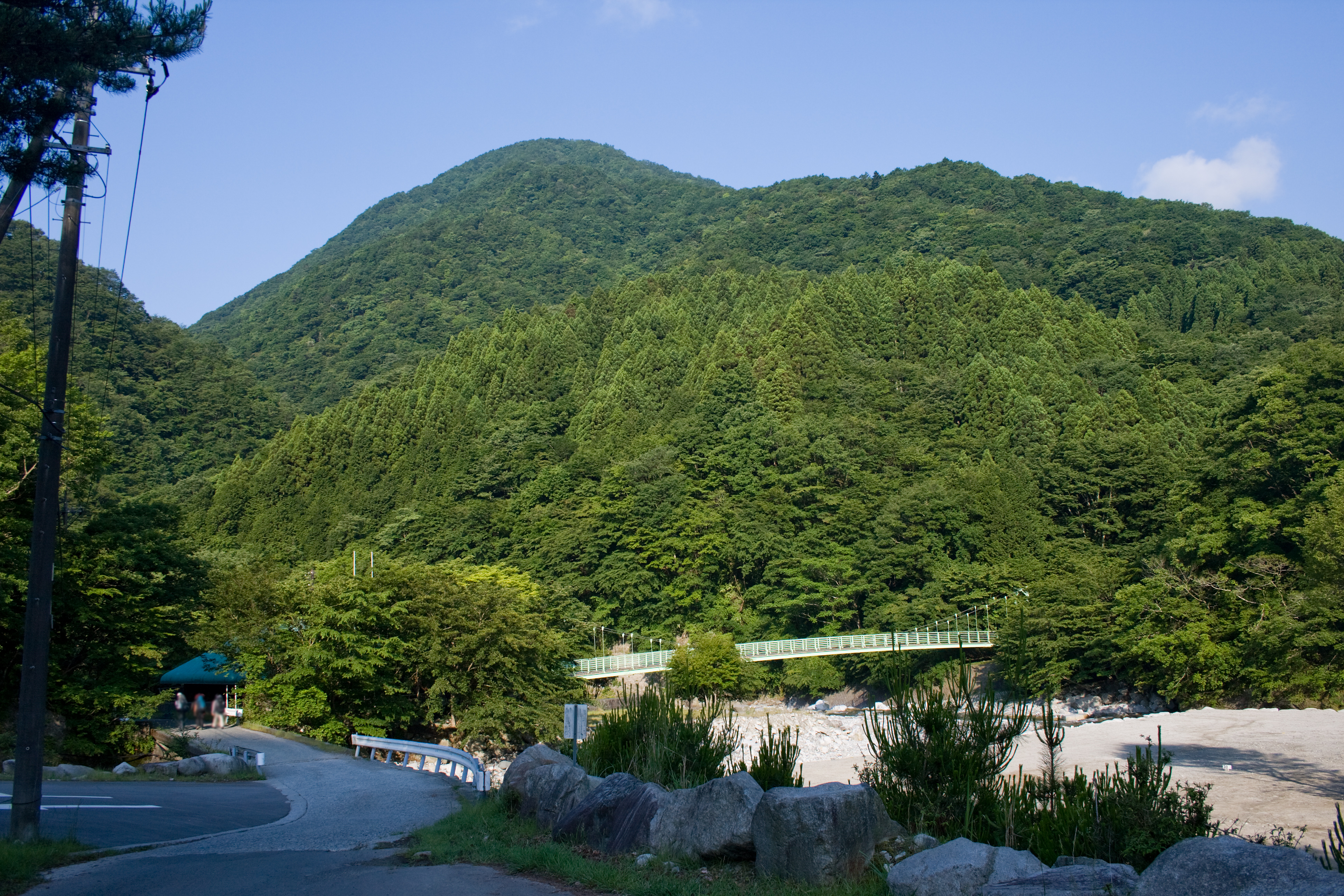 Mt.Gongen at Mts.Tanzawa, Kanagawa, Japan.